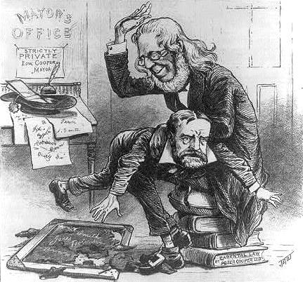 Peter Cooper spanking N.Y. Mayor Edward Cooper.